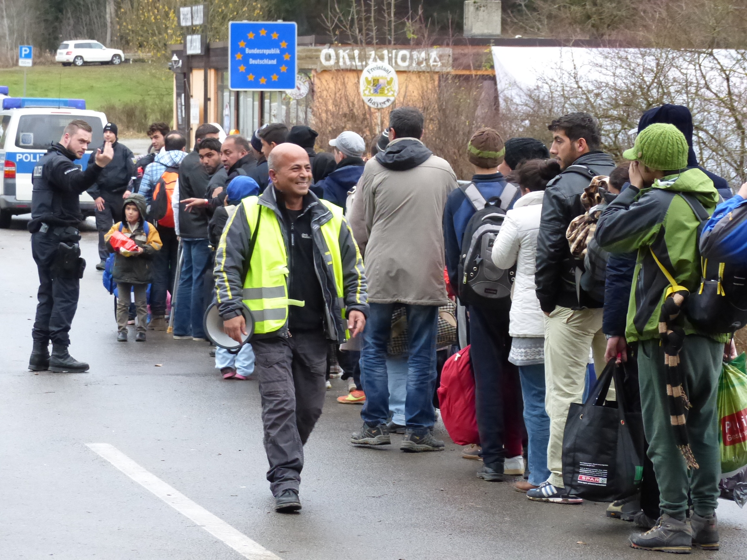 Grenzübergang Oberösterreich / Deutschland Immigrantenabfertigung 17.11.2015 - WEGSCHEID-HANGING Personality rights warning Although this work is freely licensed or in the public domain, the person(s) shown may have rights that legally restrict certain re-uses unless those depicted consent to such uses. In these cases, a model release or other evidence of consent could protect you from infringement claims.